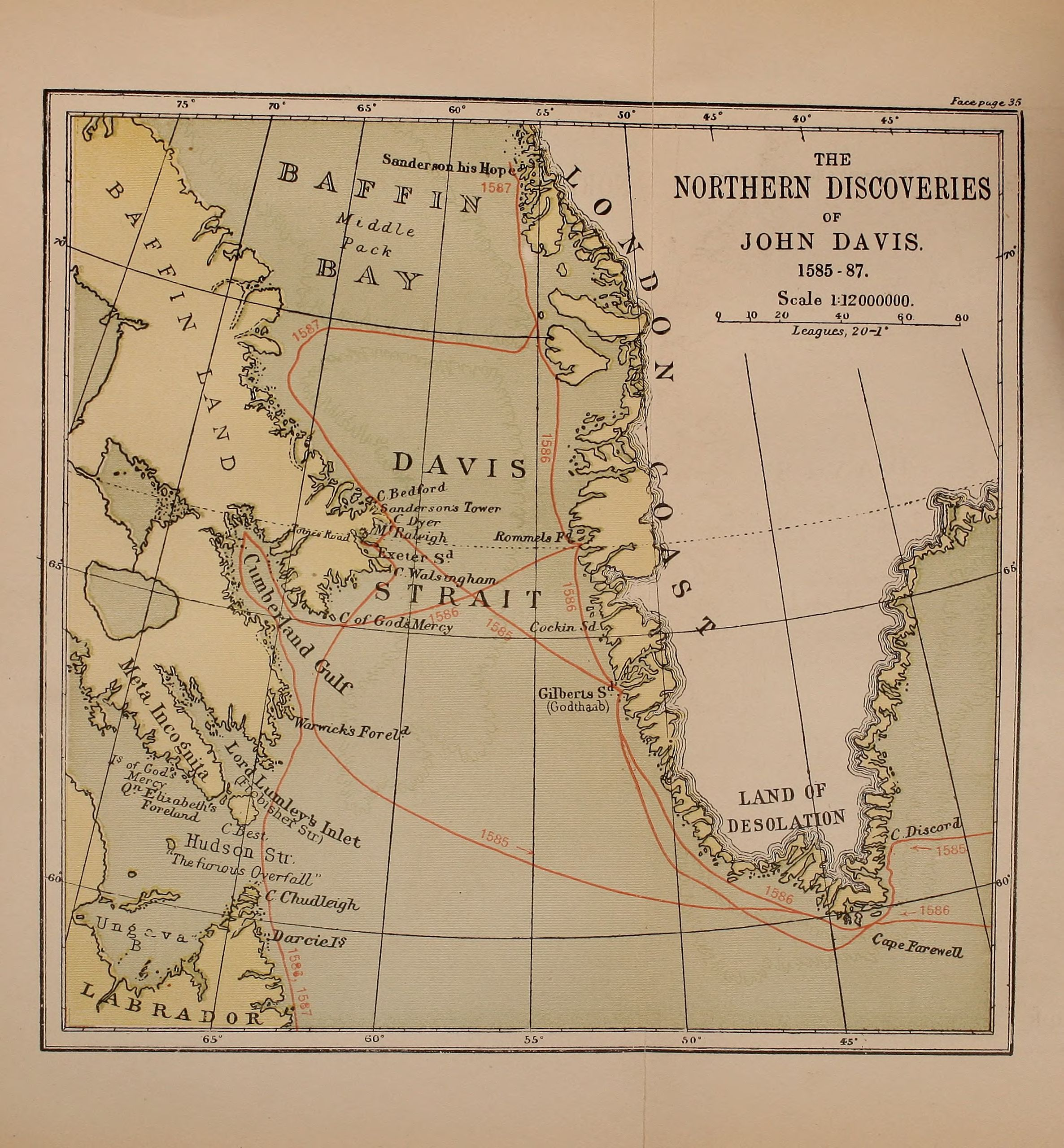 Map of the Northern Discoveries of John Davis 1585-87. From Clements Markham A life of John Davis, the navigator, 1550-1605, discoverer of Davis straits.